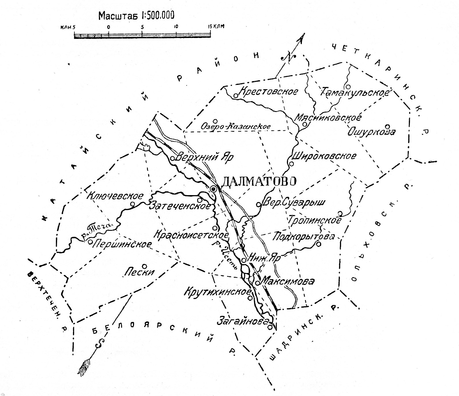 Map of Dalmatovskiy rayon (Shadrinskiy okrug of Uralic Region of RSFSR) in 1928.